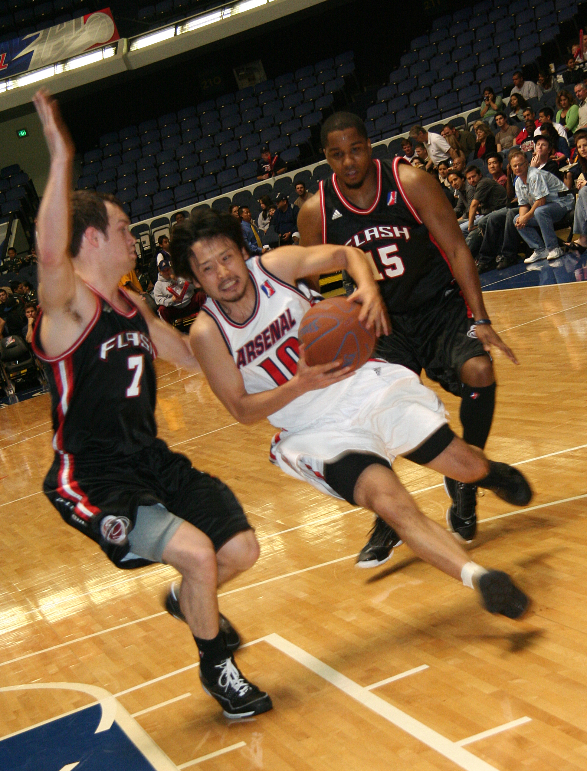 Yuta Tabuse playing in 2008